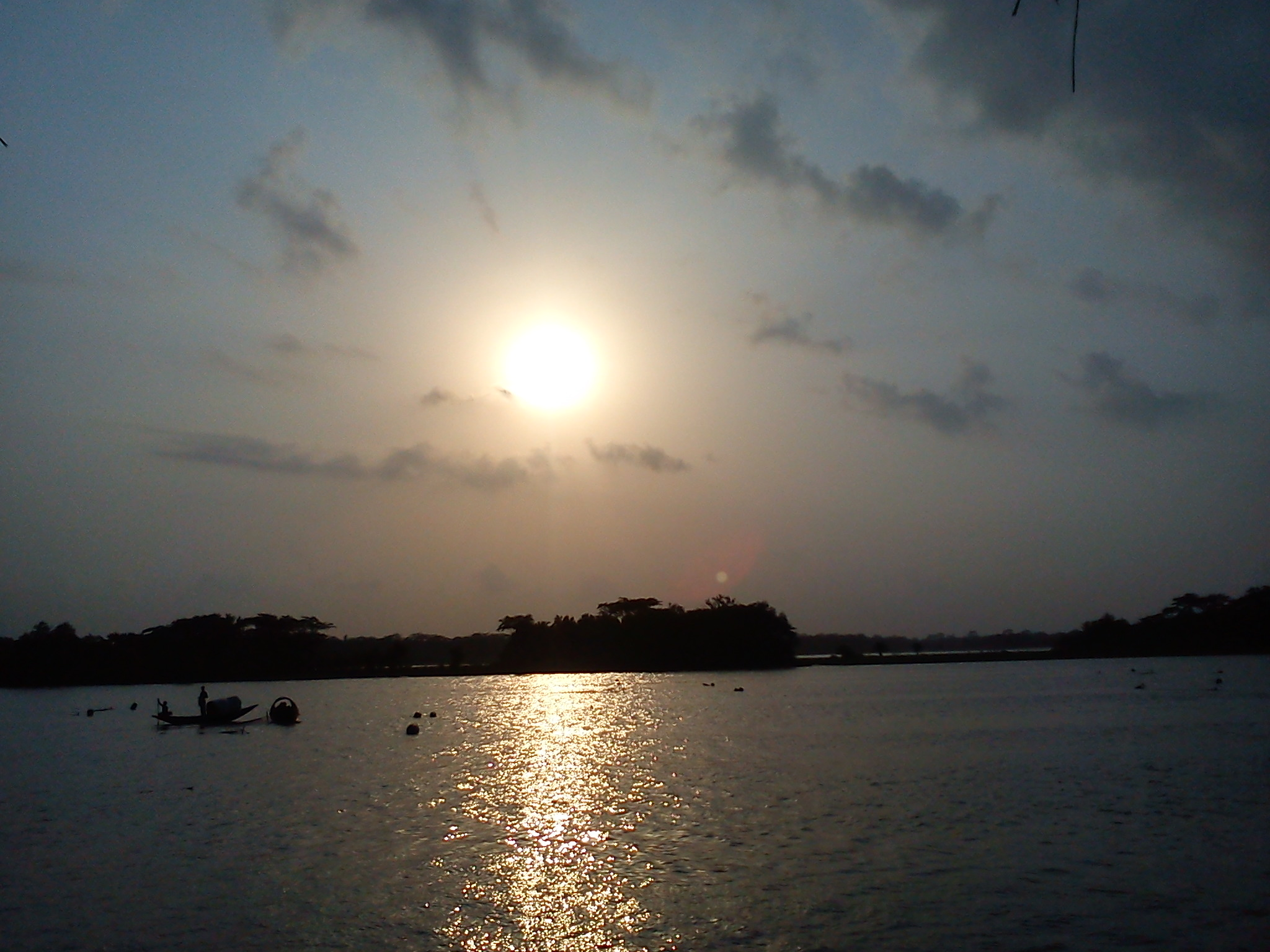 The Baleshwar river, Pirojpur